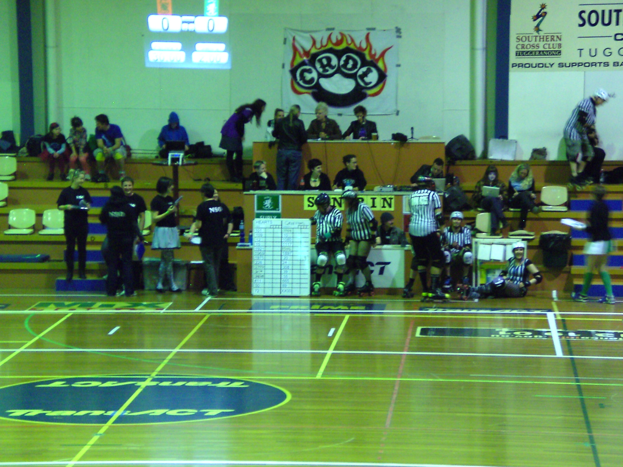 Canberra Roller Derby League officials (in 'zebra' shirts, and NSO = Non-Skating Official shirts)